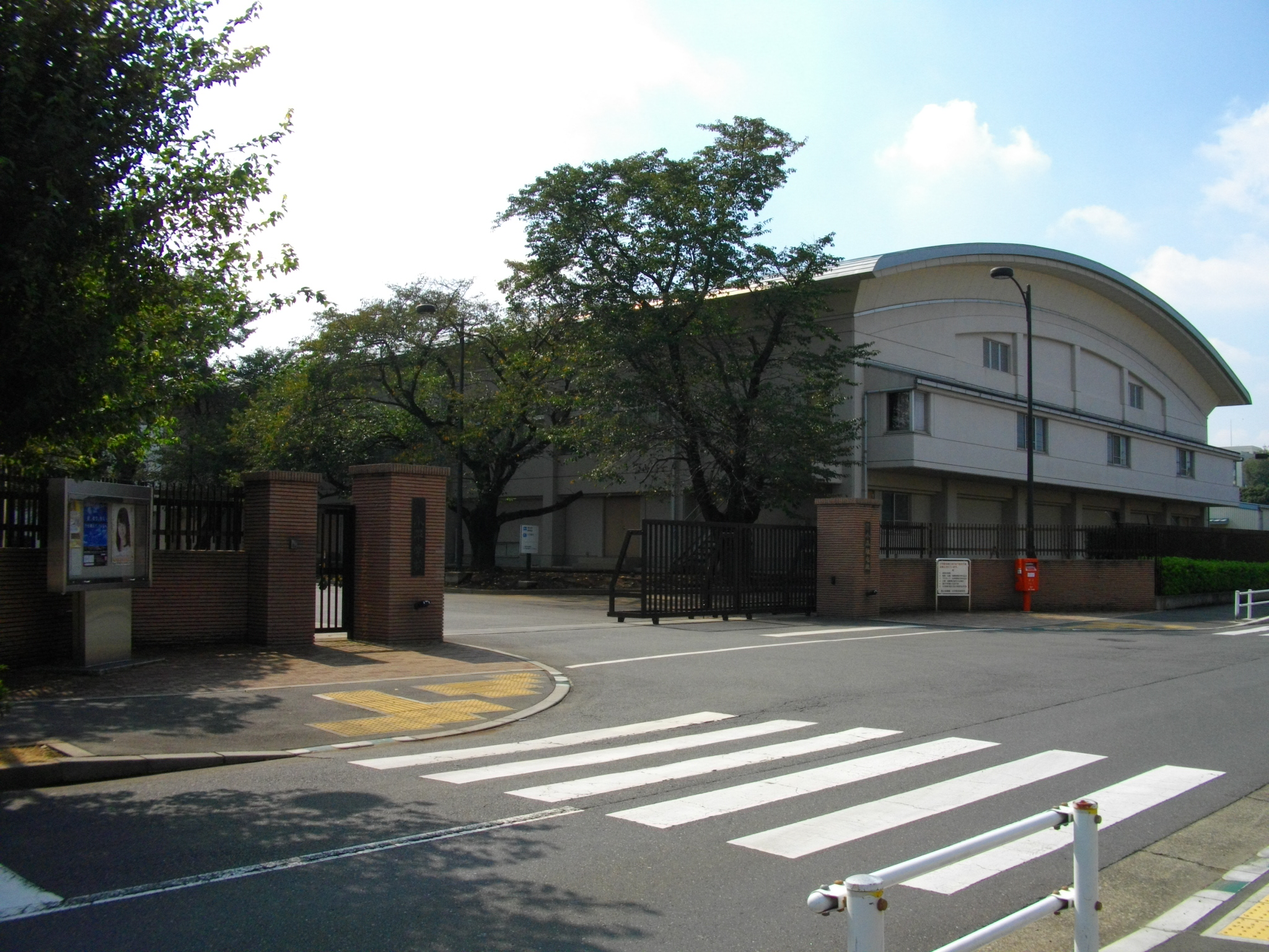 JGSDF Camp Kodaira